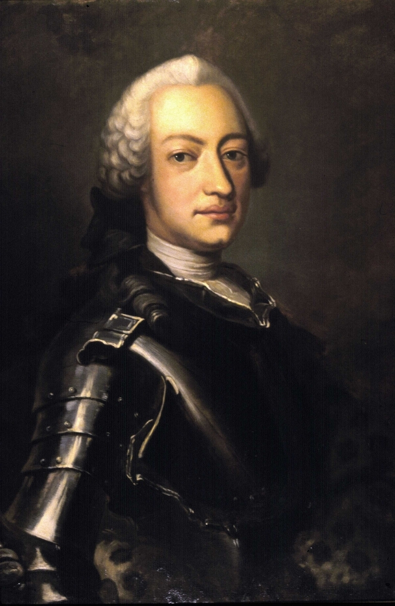 Copy after painting by unknown artist.